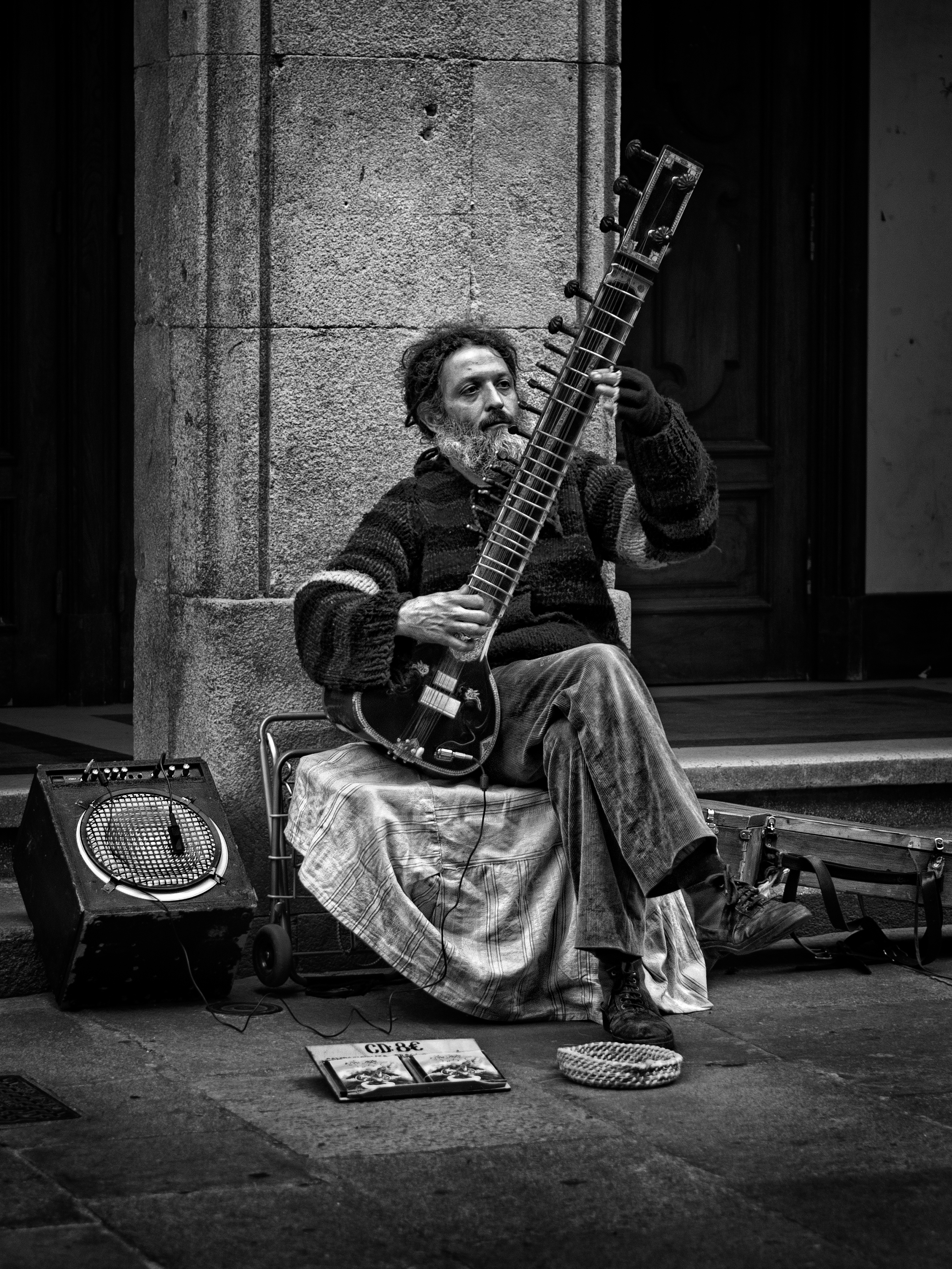 While My Sitar Gently Weeps